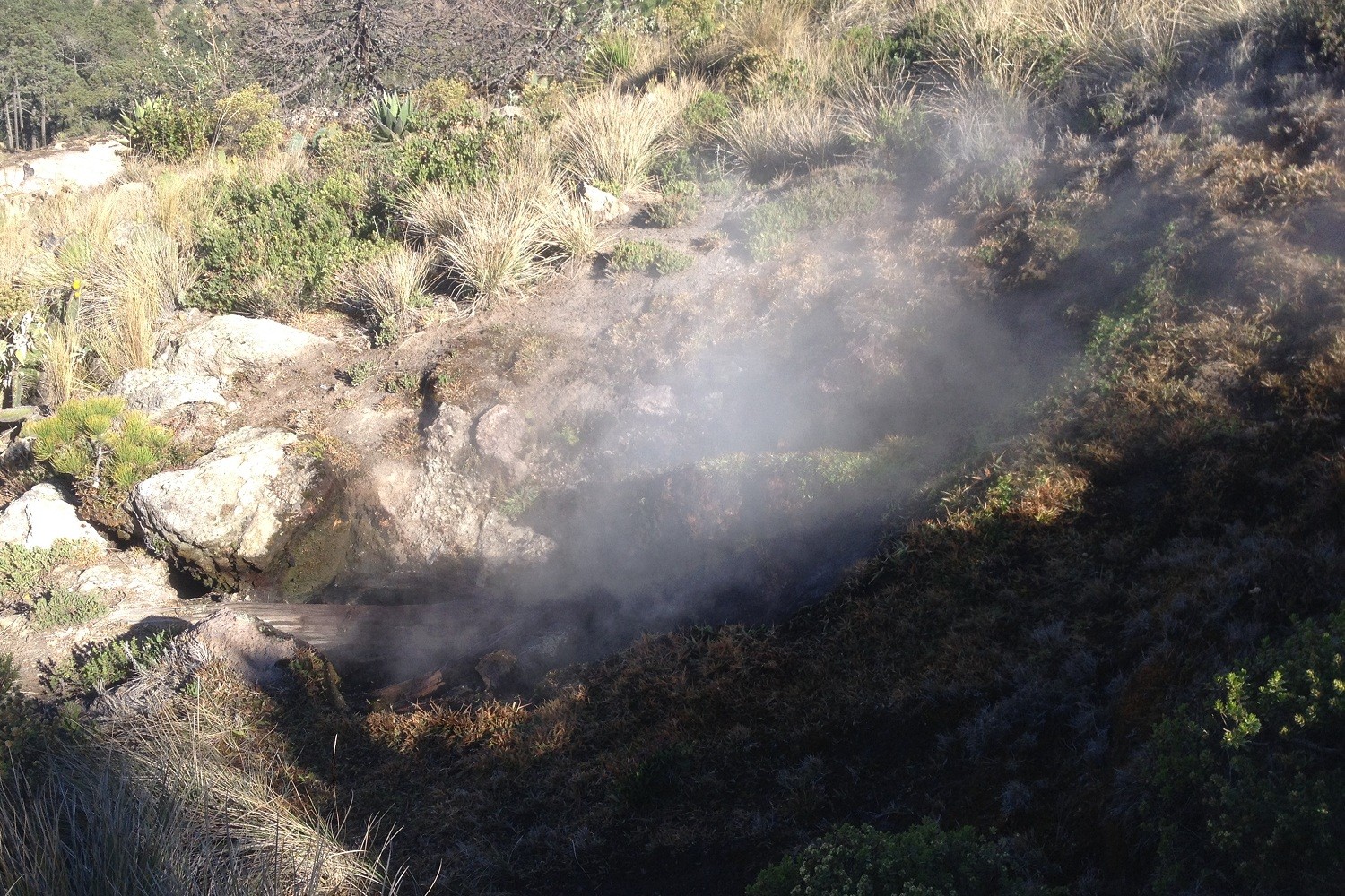 A geothermal fumarole field close to the summit of Las Derrumbadas' south cone. San Nicolás Buenos Aires municipality, Puebla, Mexico.